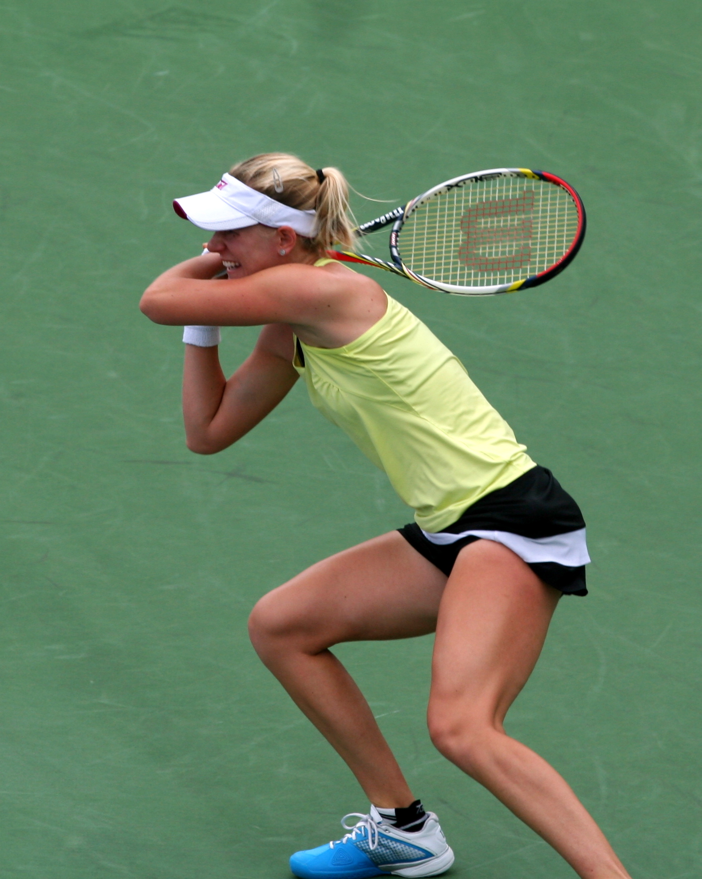 Saturday, August 31, 2013